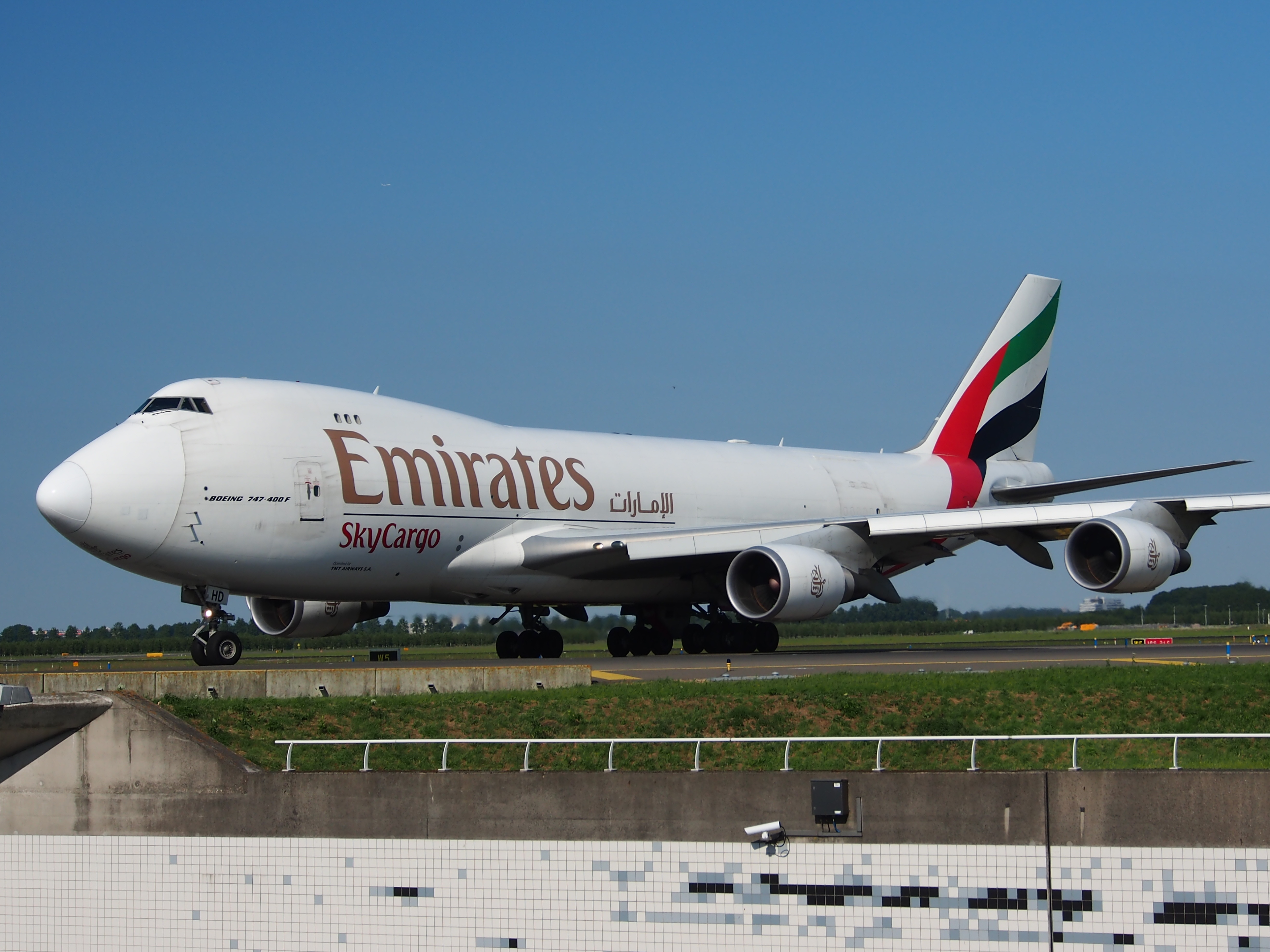 Photographed at Schiphol, Amsterdam airport, (IATA: AMS, ICAO: EHAM), the Netherlands.